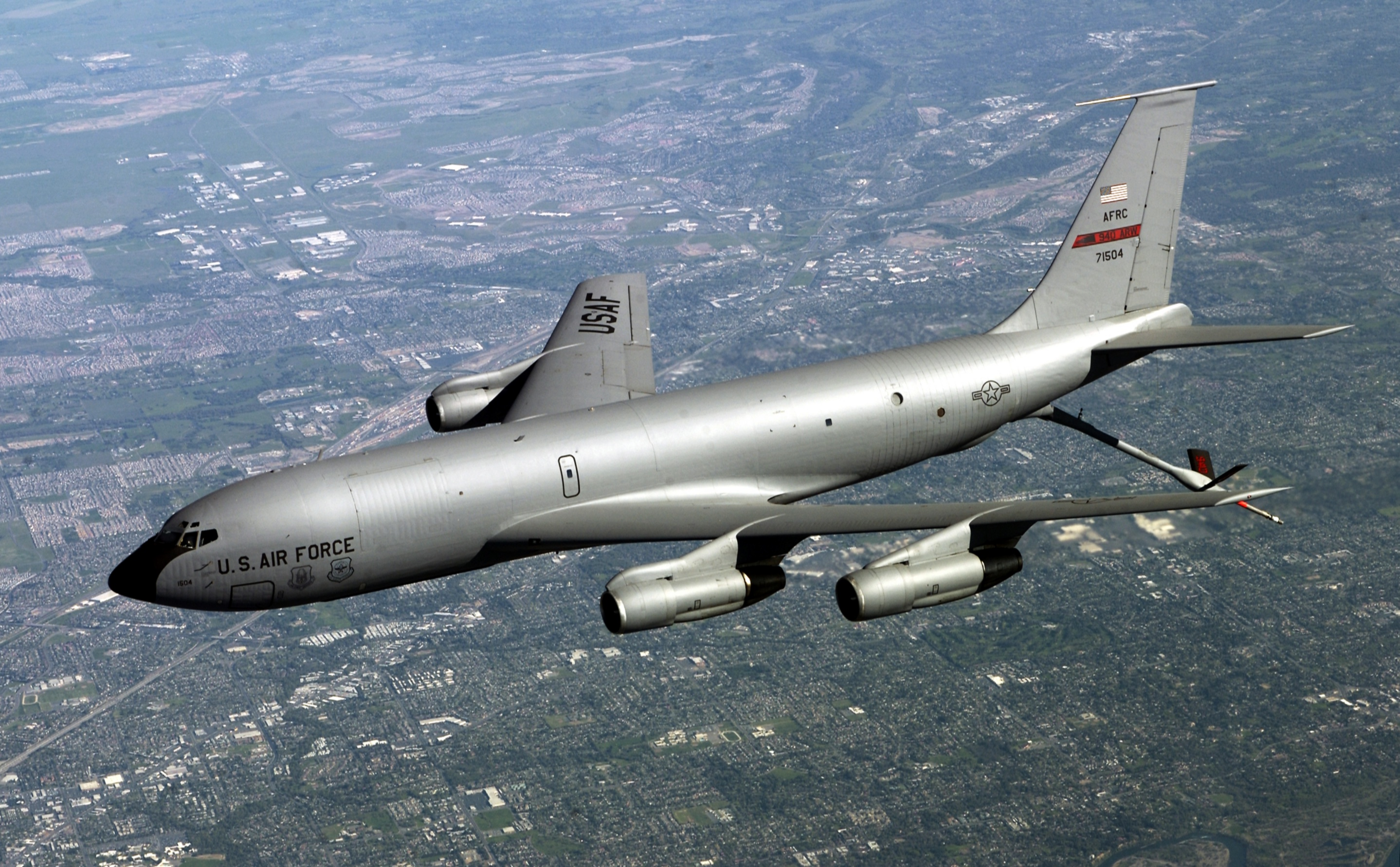 A U.S. Air Force Boeing KC-135E Stratotanker (s/n 57-1504) from the 940th Aerial Refueling Wing, U.S. Air Force Reserve, at Beale Air Force Base, California (USA). It was flown by Maj. Paul Sheehan, aircraft commander, Capt. John Wahleithner, co-pilot, and Maj. Rob Mazzie, navigator during a operation "Noble Eagle" training patrol on 16 March 2004. This aircraft was retired to the AMARC in September 2008.